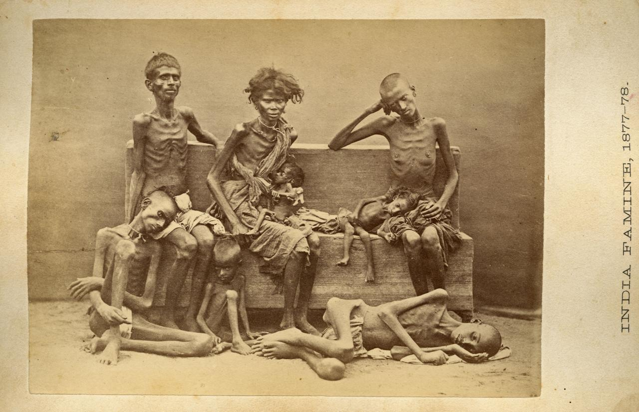 Inmates of a relief camp (during the famine 1876-1878) in Madras - Tamil Nadu - South India